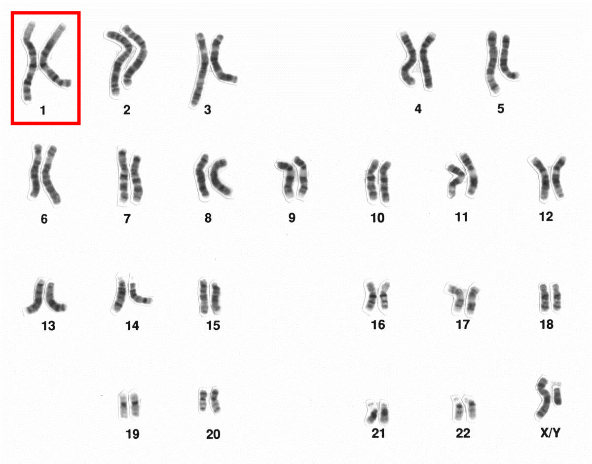 Human male Karyotype after G-banding. Chromosome 1 highlighted